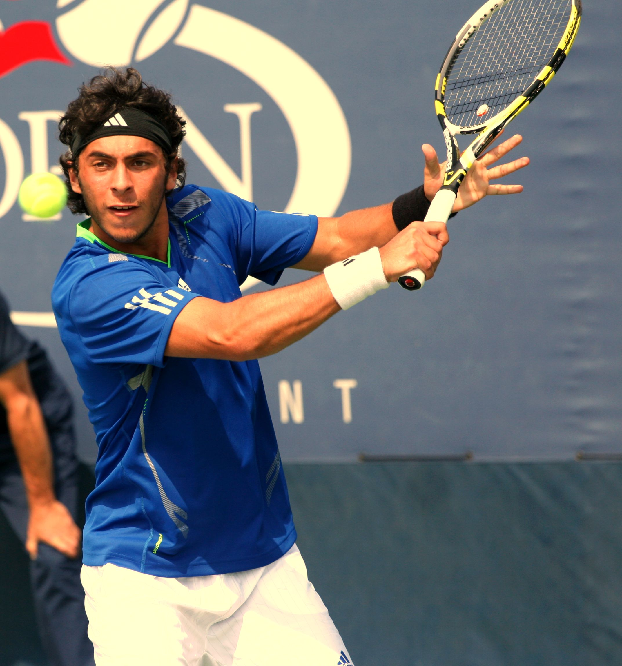 U.S. Open Juniors Monday, Sept. 5, 2011